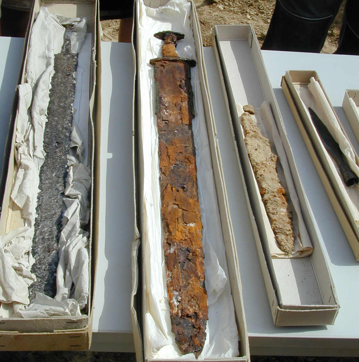 some weapons out of Alamannic graveyards in Regierungsbezirk Freiburg, Germany. Around 6th and 7th century.